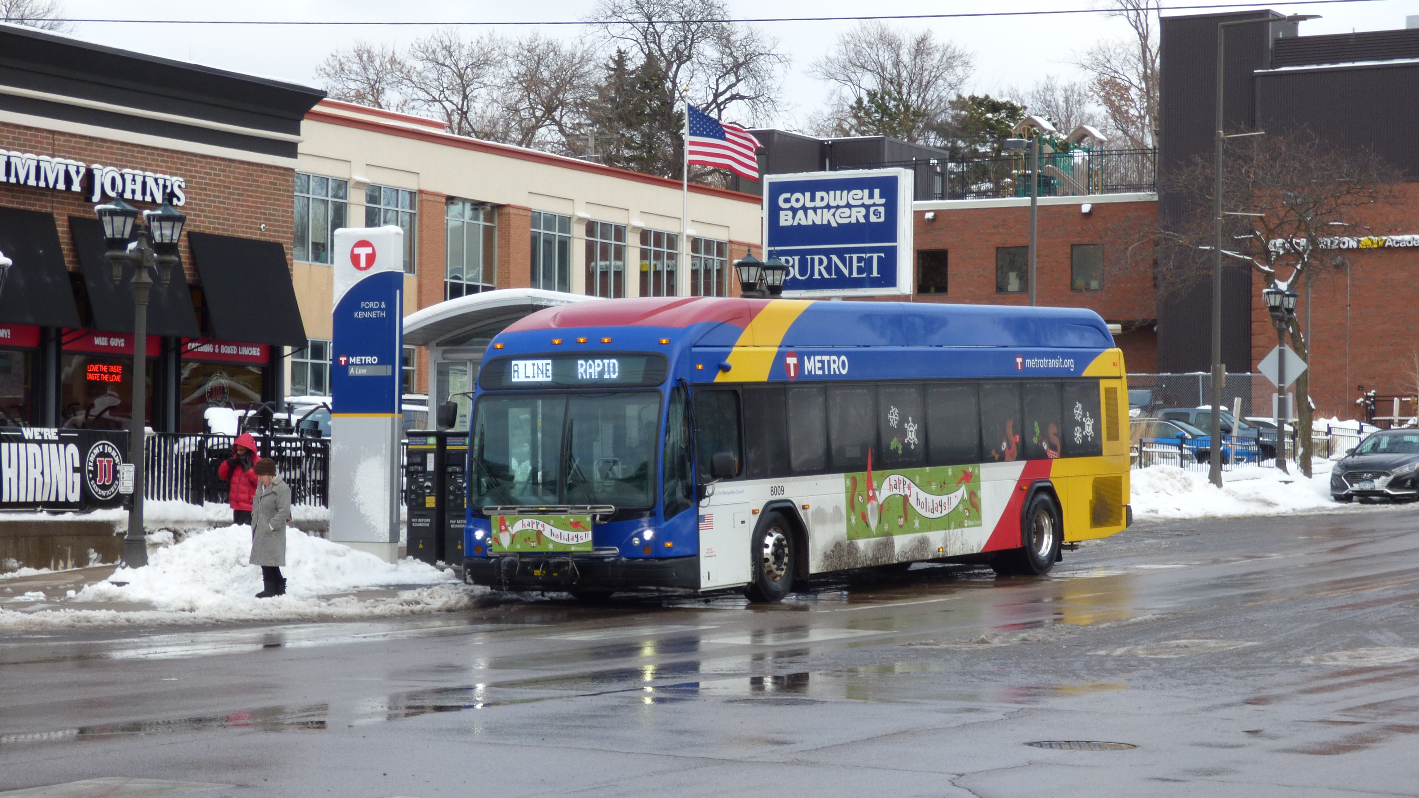 A METRO A Line bus stopping at Ford & Kenneth Station in Saint Paul, Minnesota. The bus in the photo is decorated in a seasonal winter holiday wrap and is known as the "Holiday Bus" by Metro Transit.